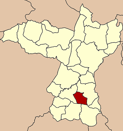 Map of Khon Kaen Province, Thailand, highlighting the sub-district Non Sila (กิ่งอำเภอโนนศิลา)